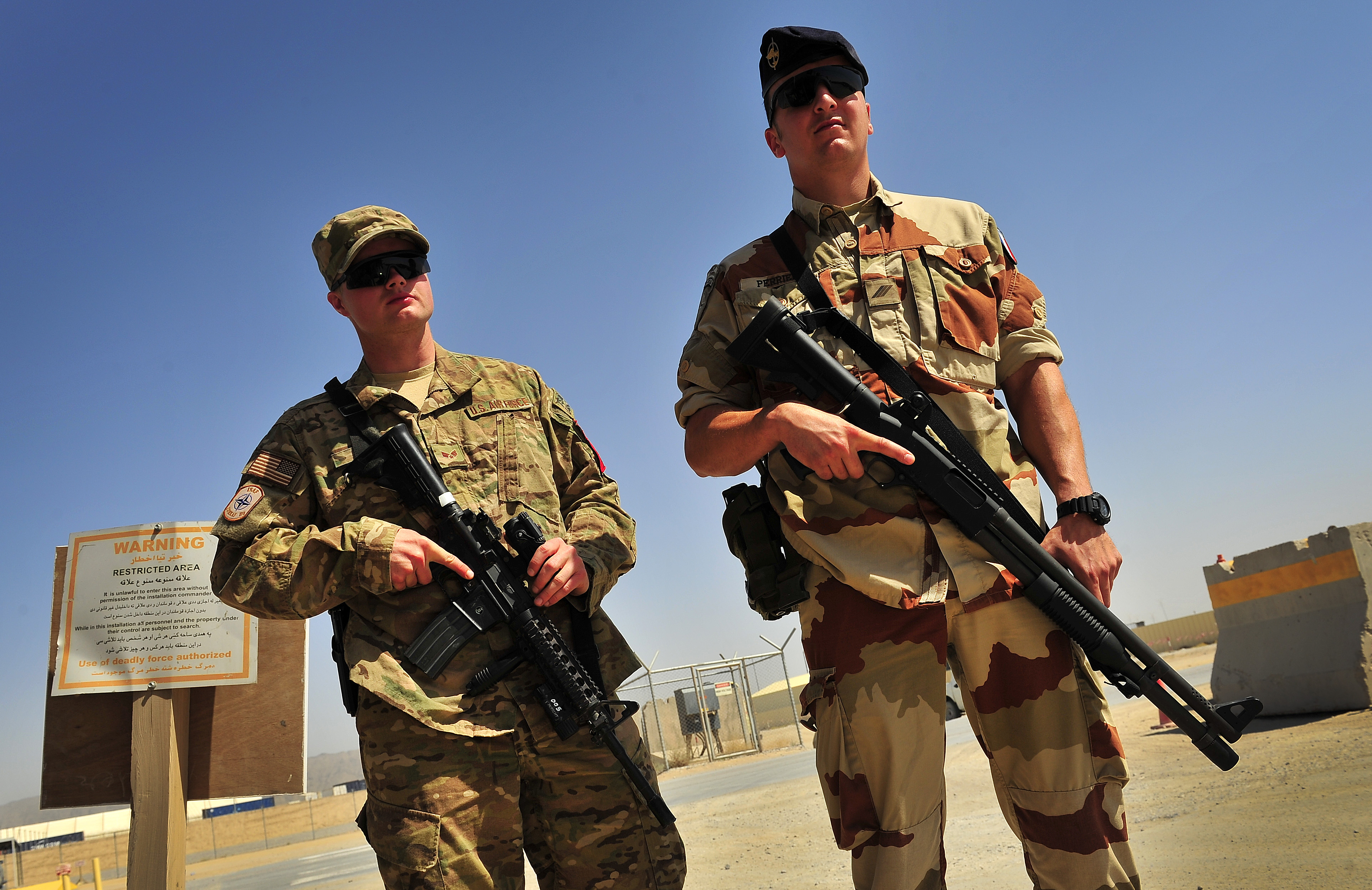 Security Forces members of the French Air Force, Detachment 3/3, conduct Operation Enduring Freedom base defense roles in order to support coalition forces on Kandahar Airfield and in the Kandahar Province, Afghanistan, June 20, 2012. The French performs these roles alongside U.S. Security Forces members in an effort to maintain there own flightline security of French assets and personnel. (U.S. Air Force photo/Staff Sgt. Clay Lancaster)